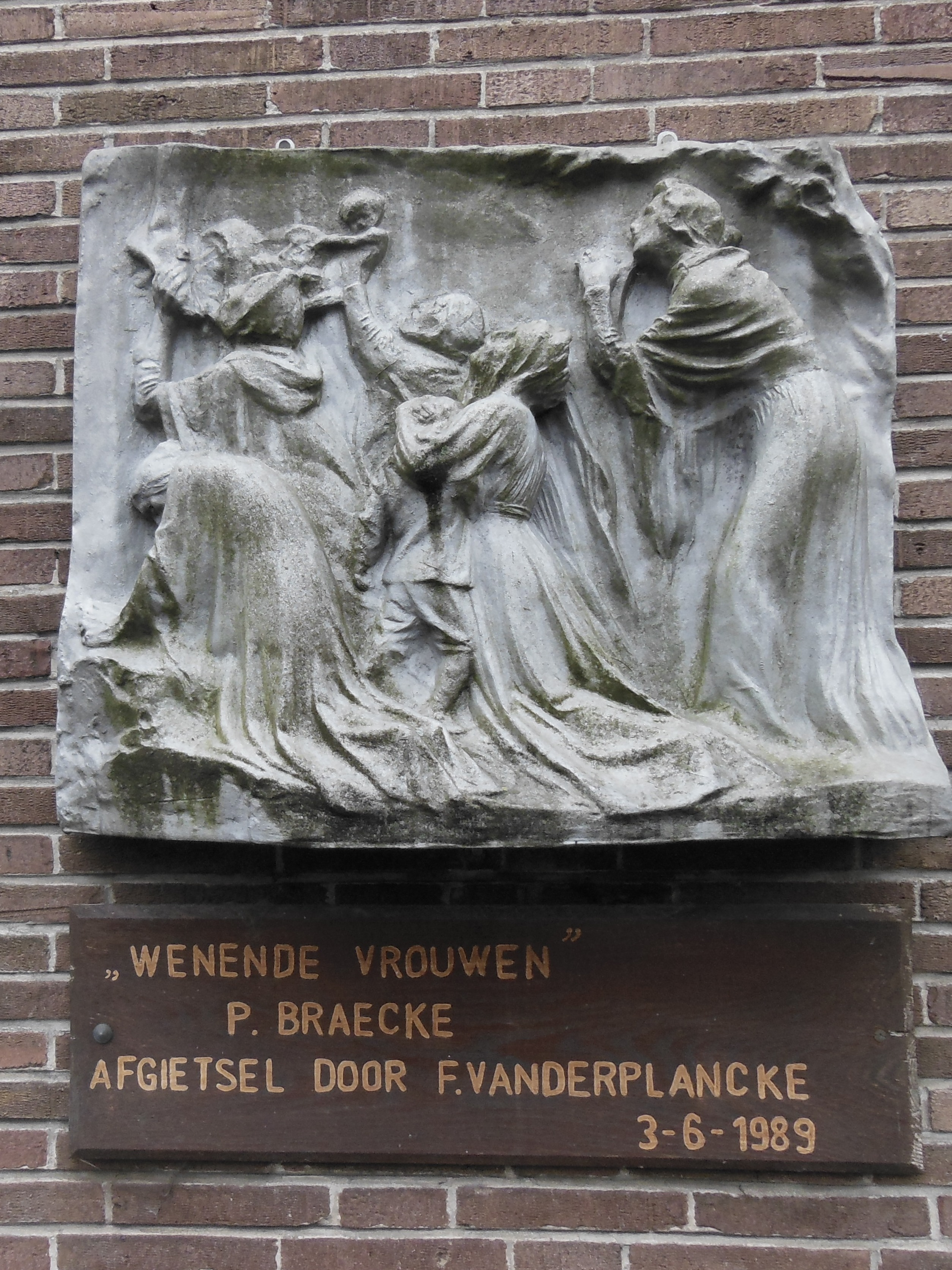 A bas-relief sculpture representing crying and moaning women, at the feet of the crucified Christ